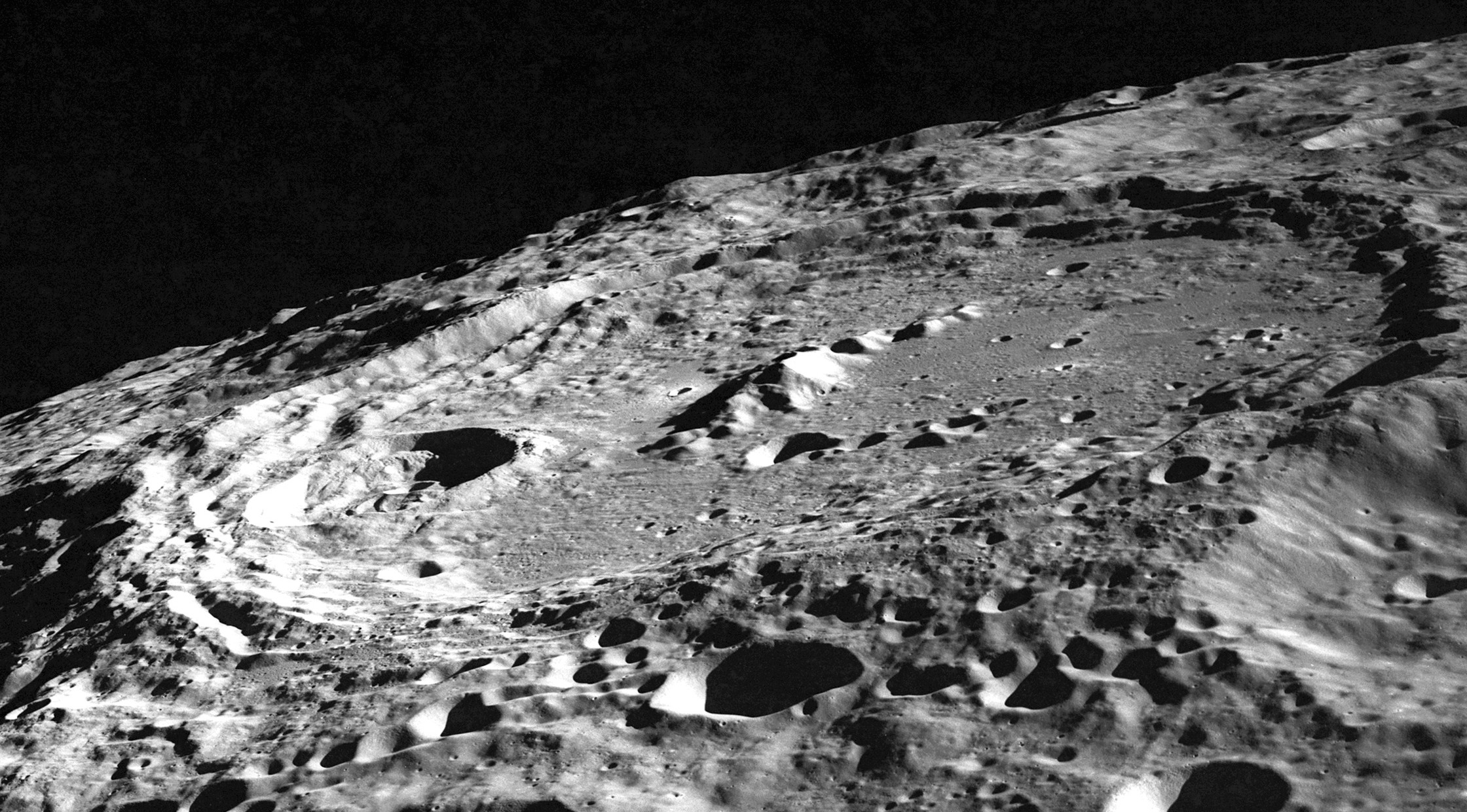 Oblique view of Keeler, on the moon.